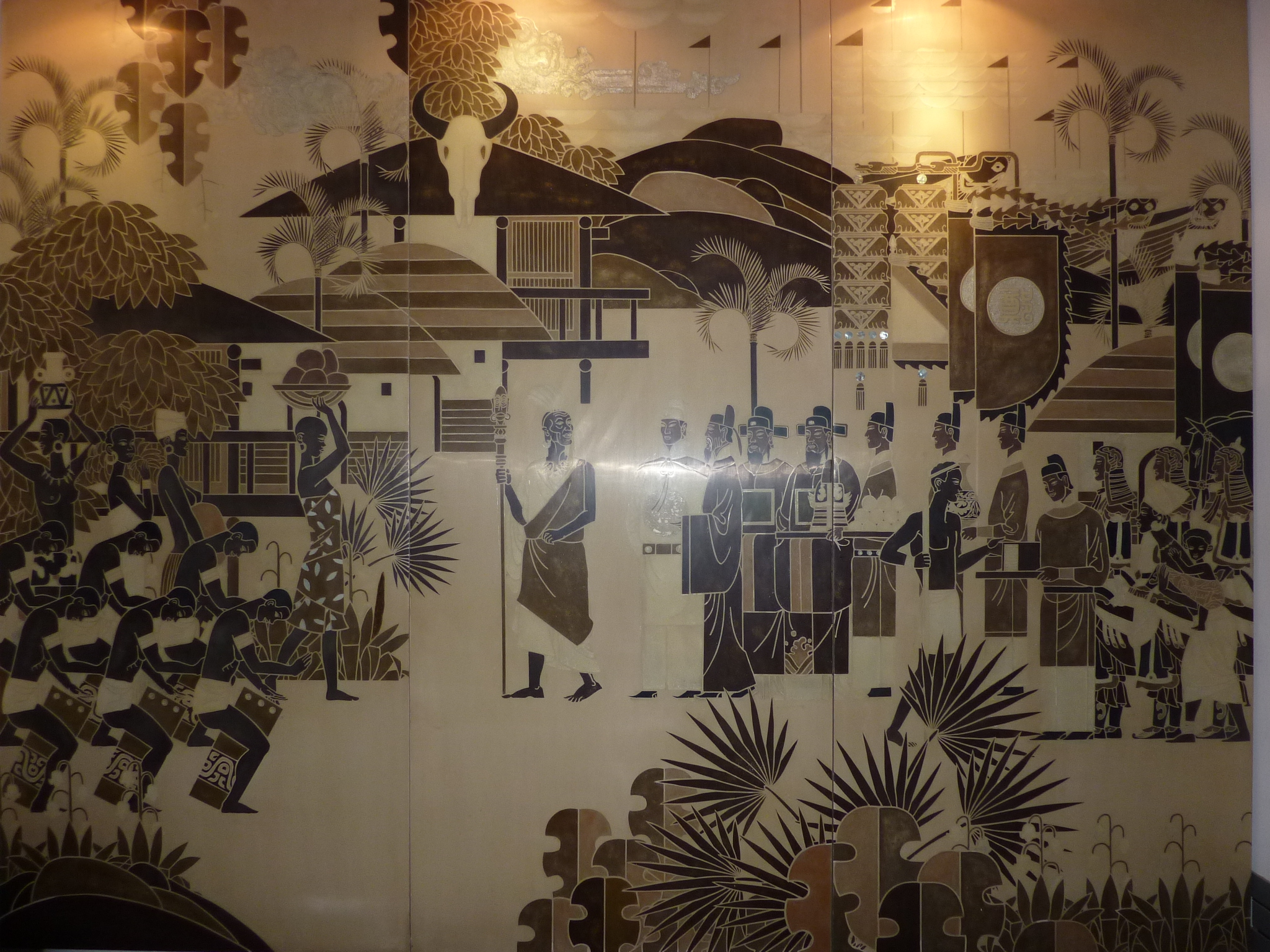 In the Zheng He Memorial Hall of the Jinghai Temple, Nanjing.